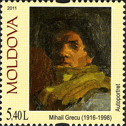 Stamps of Moldova